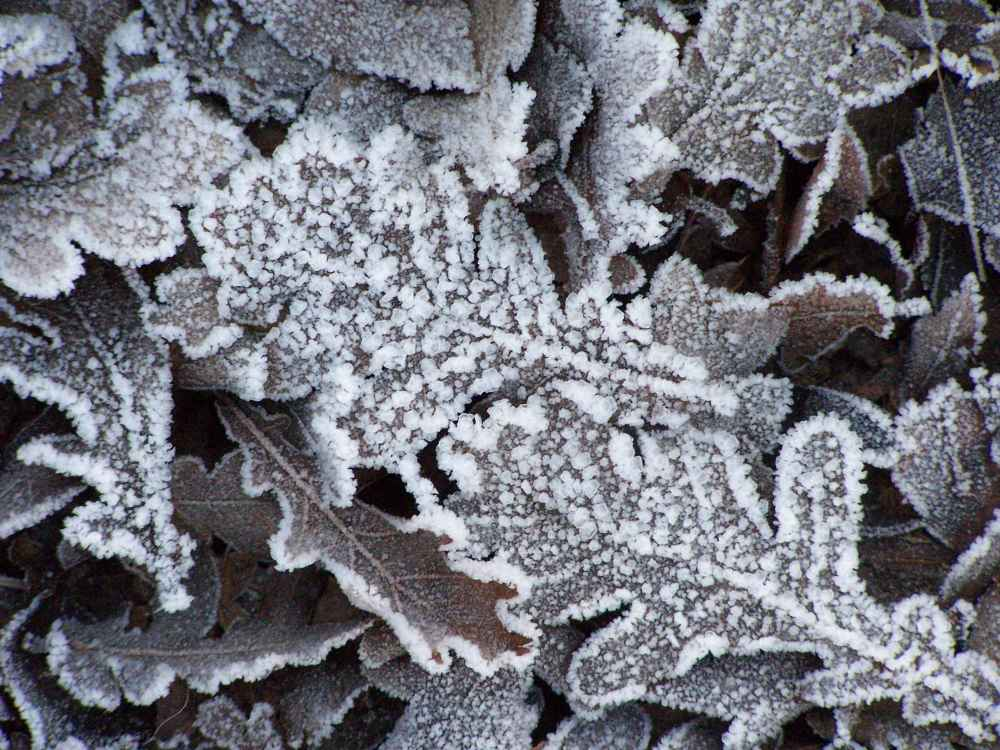 hoar-frost